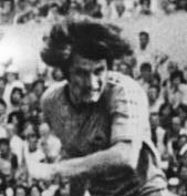 Fußball-WM, Schottland - Jugoslawien 1:1